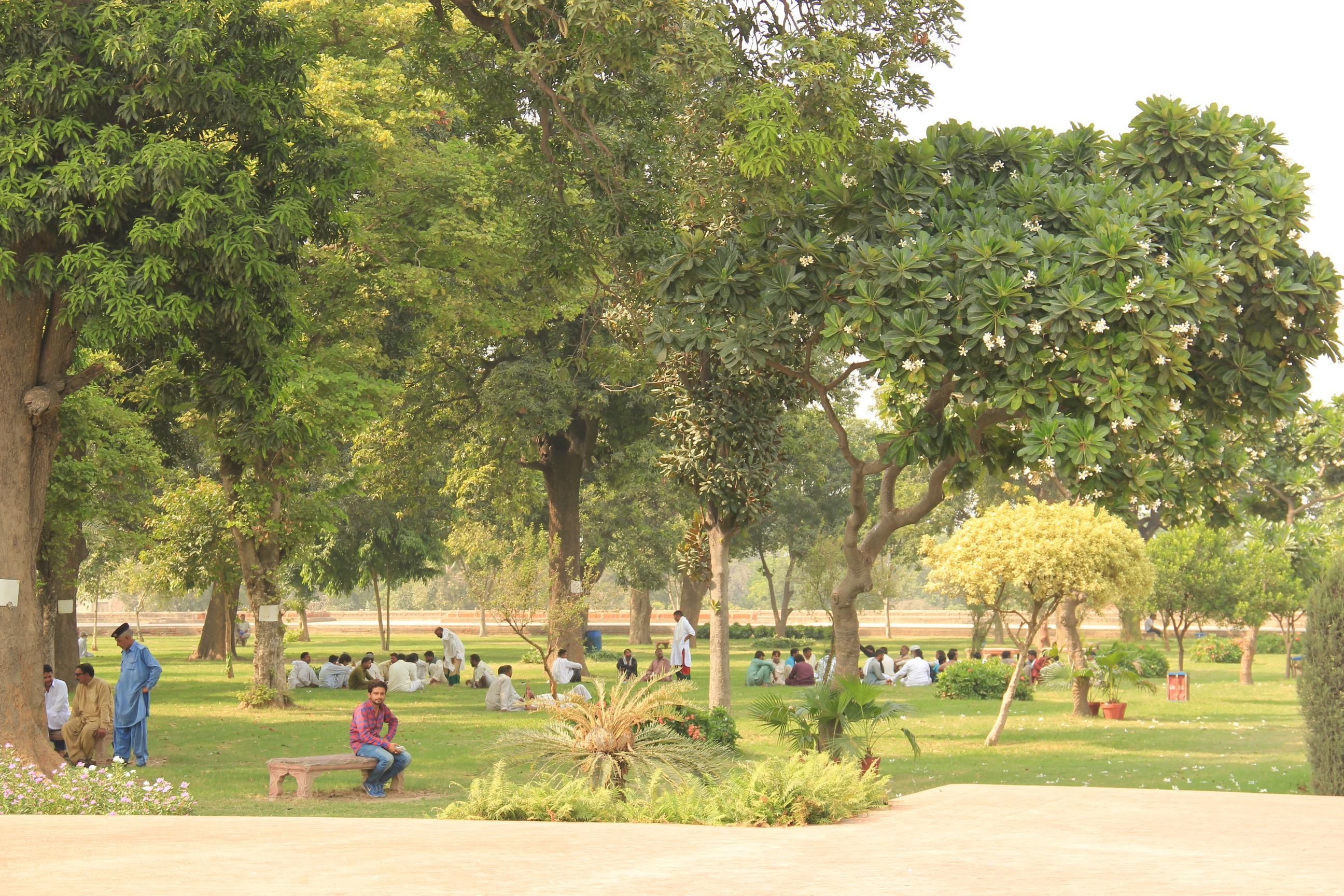 Shalimar Gardens This is a photo of a monument in Pakistan identified as the PB-84